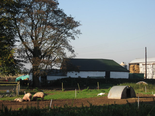 Livestock at Fordhall Fordhall Farm supplies bacon, ham, sausages etc from its own home-reared Gloucester Old-Spot pigs, just like these ones. The white building is the farm shop, so feel free to call in and buy.